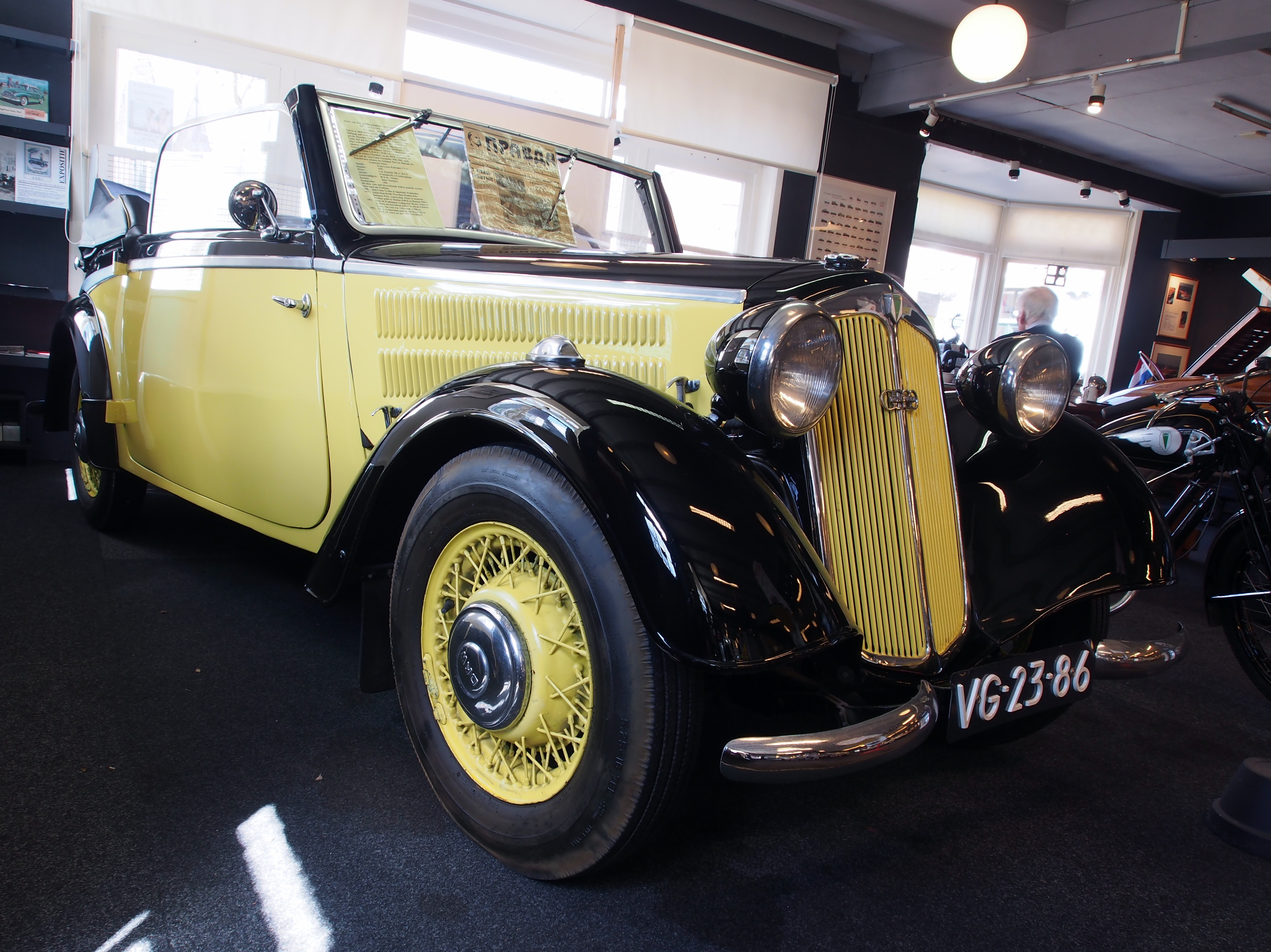 Photographed in the Auto-Union Museum in Bergen, The Netherlands.